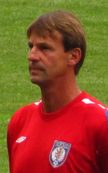 František Straka, Czech football player